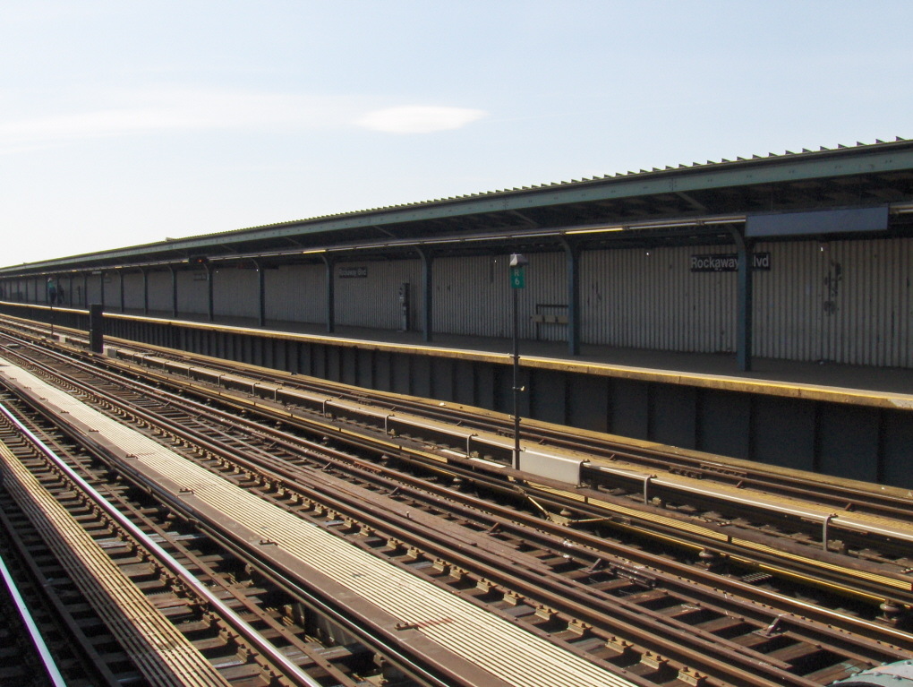 Rockaway Blvd. on the IND Fulton Line